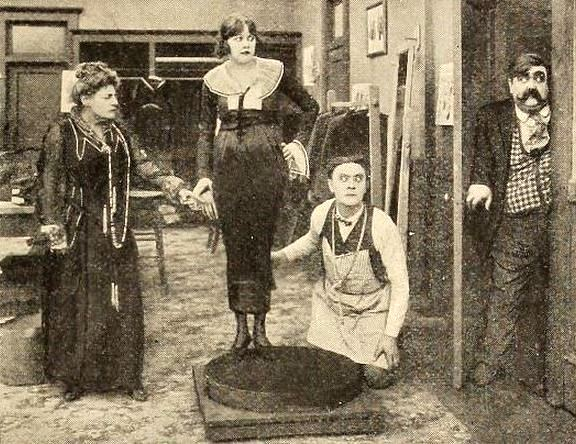 Still from the American comedy short film Rip & Stitch: Tailors (1919) with Alice Davenport, Myrtle Lind, Harry Gribbon, and Hughie Mack, on page 27 of the April 1919 Film Fun.